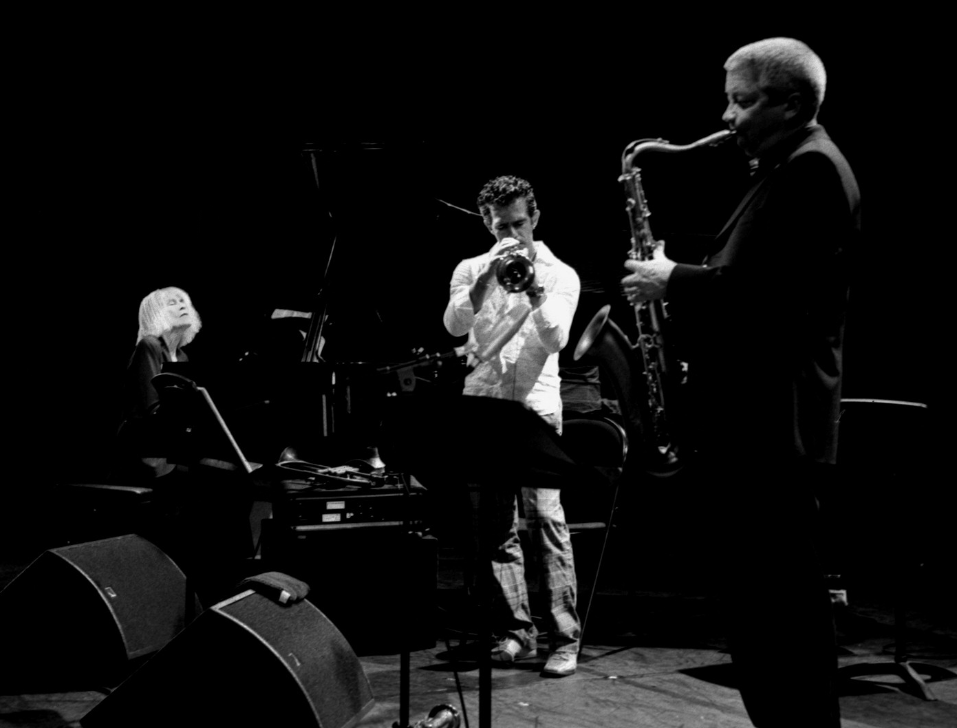 Crop of :Image:Carla-Bley.jpg, removing a bit on the left, and removing a distracting stage light above Carla Bley's head. Original information follows. Carla Bley - The lost chords find Paolo Fresu in Monaco From left to right : Carla Bley, Paolo Fresu and Andy Sheppard. I User:Ericd took this picture myself on May 15, 2007 at the Cabaret of the Casino in Monte-Carlo with a Konica Hexar RF and a Jupiter-8 50mm f/2.0 lens on Kodak Tri-X. The picture was scanned from film.